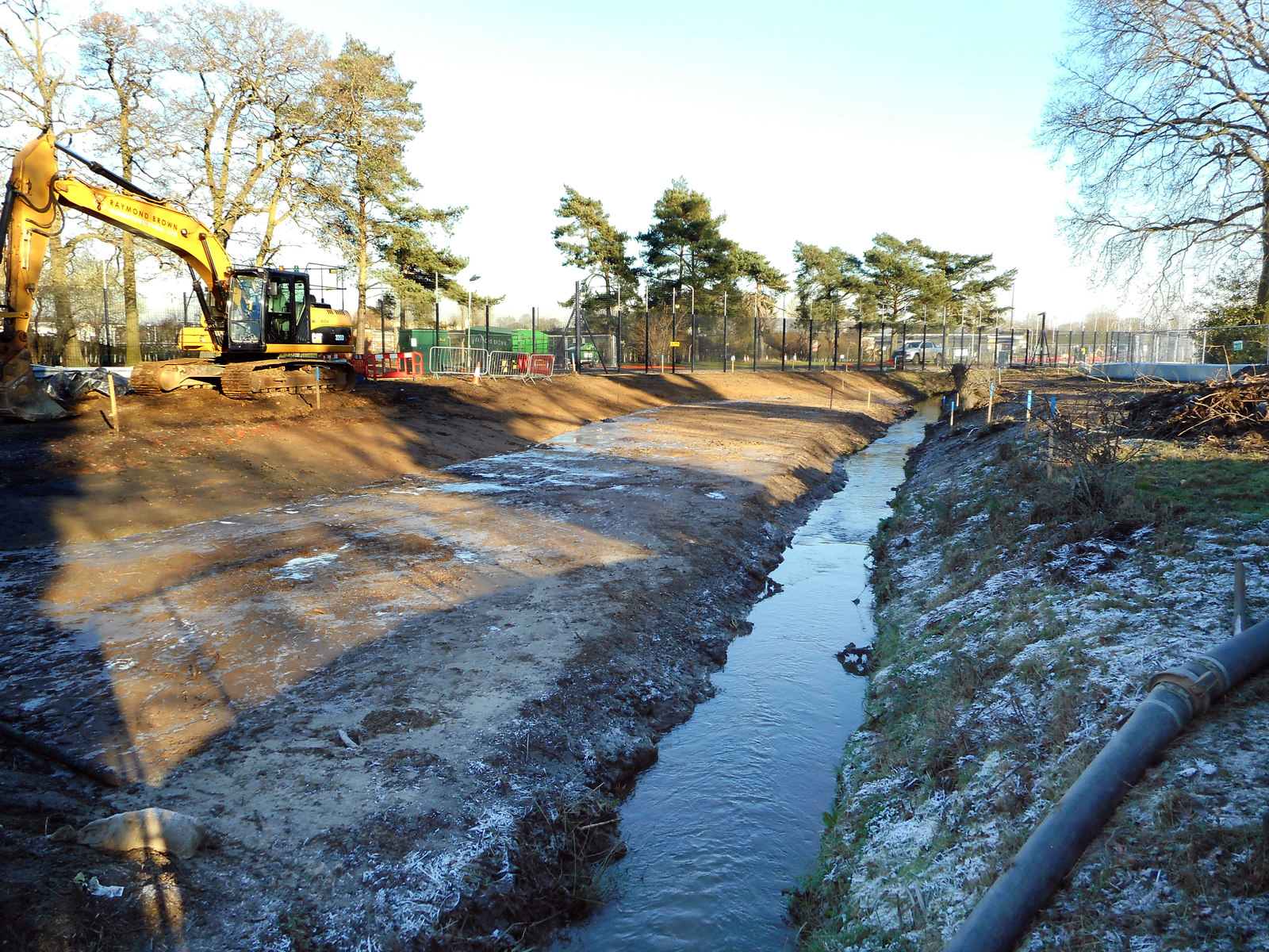 Burghfield Brook in the Building Site